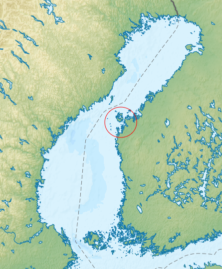 location of the Kvarken Archipelago in Finland, part of the Kvarken marine area between Sweden (left) and Finland (right), marked on a relief map of the Gulf of Bothnia